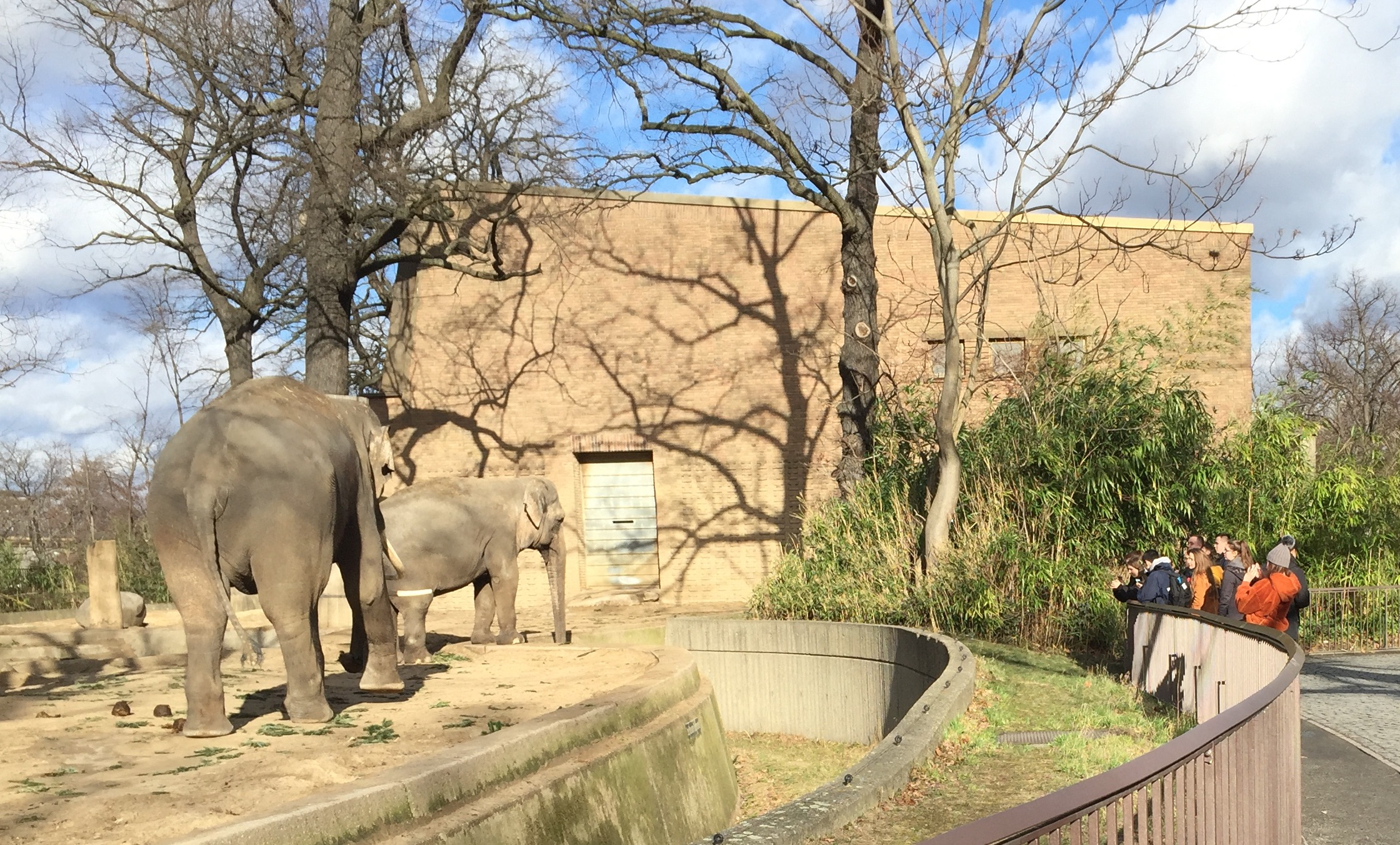 Elephant area at Zoo Berlin.